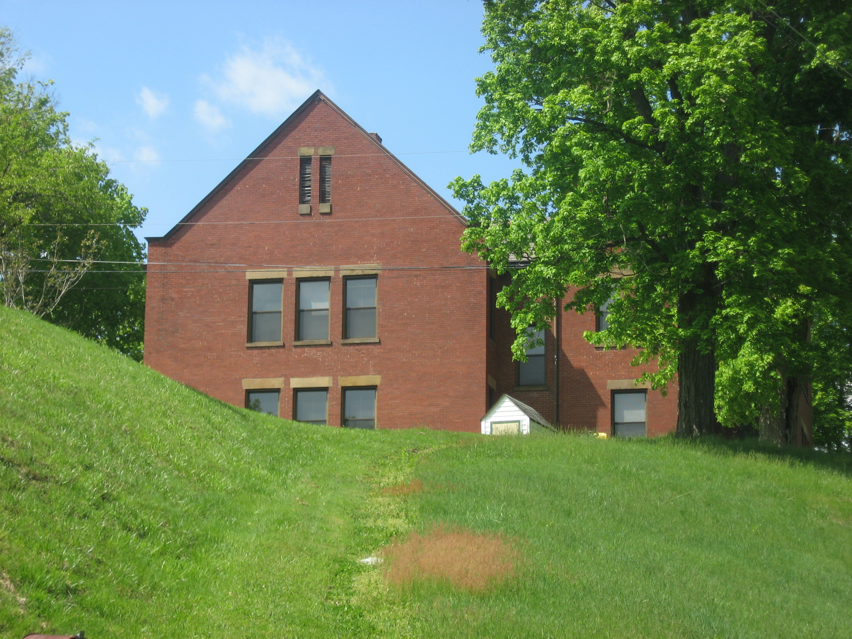 Southern side of the former West School, located on Cemetery Road in Crooksville, Ohio, United States. Built in 1904, it is listed on the National Register of Historic Places.